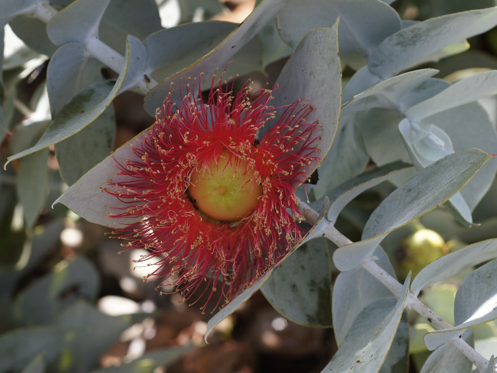 Hybrid Eucalyptus macrocarpa x rhodantha Kings Park, Perth, Australia